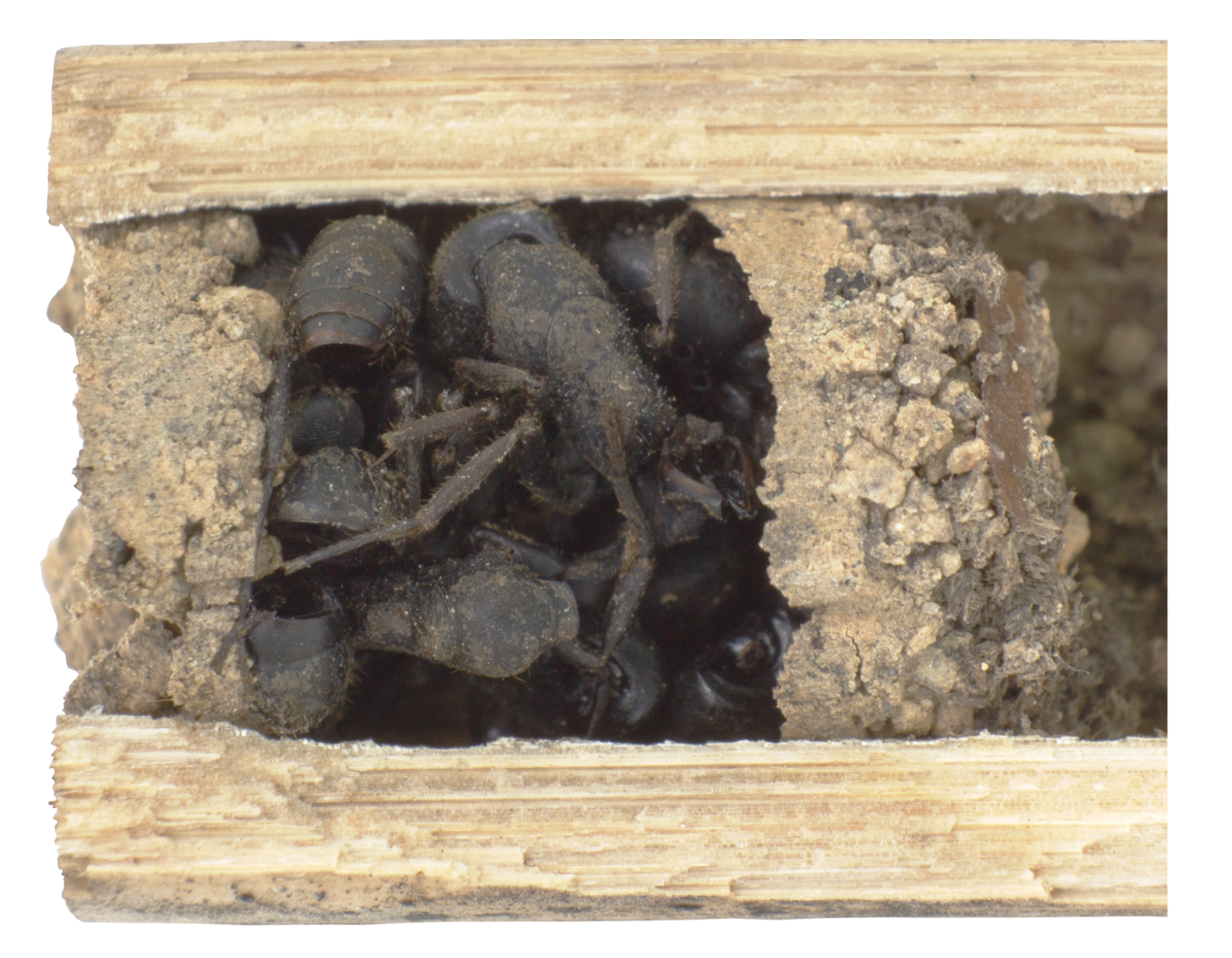 Nest protection in Deuteragenia ossarium: the nest is closed by a vestibular cell filled with dead ants. Scale bar: 5 mm.